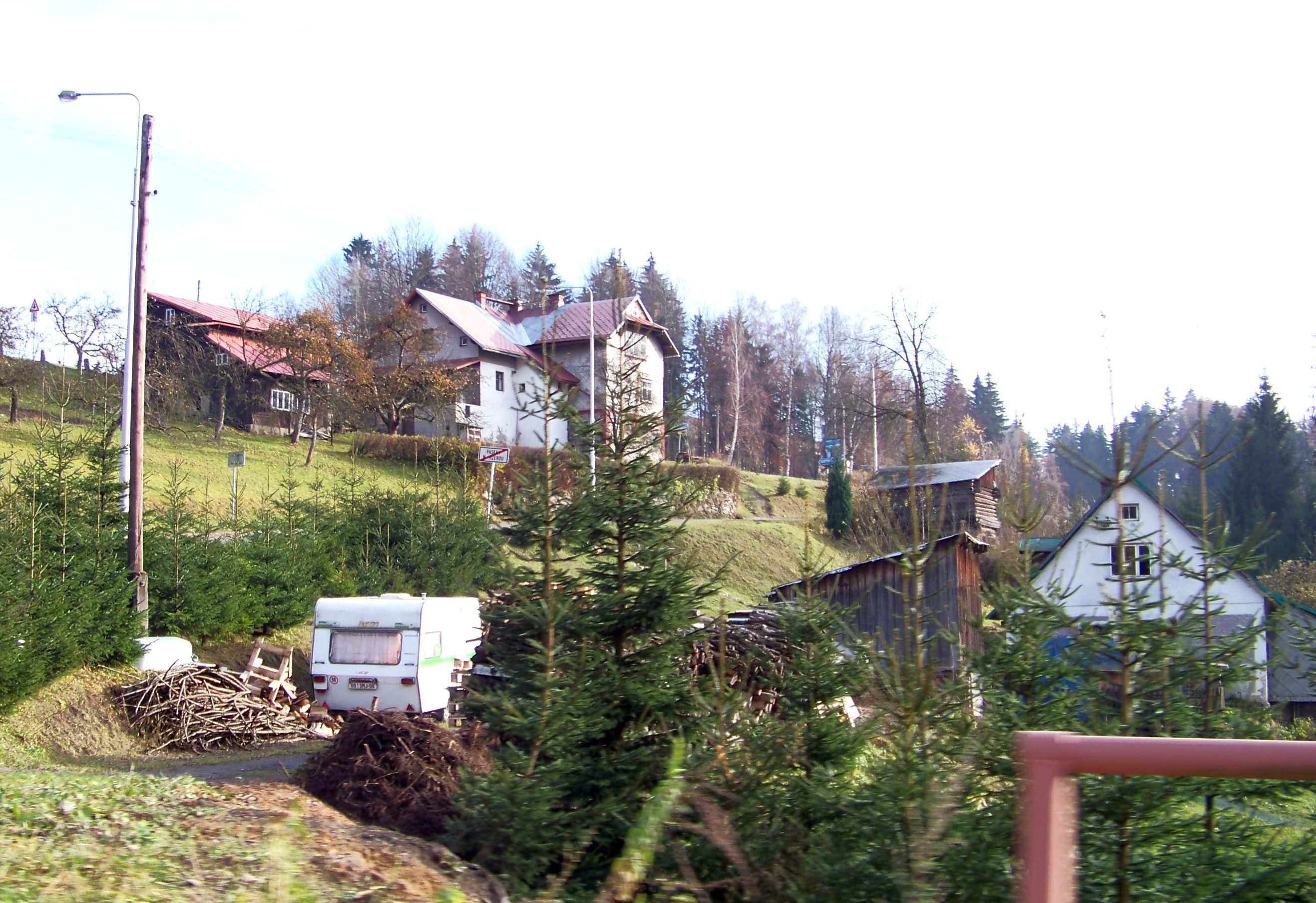 Rokytnice nad Jizerou-Dolní Rokytnice, Semily District, Liberec Region, the Czech Republic. A view from bridge over the Jizera River. - Google Maps - Google Earth